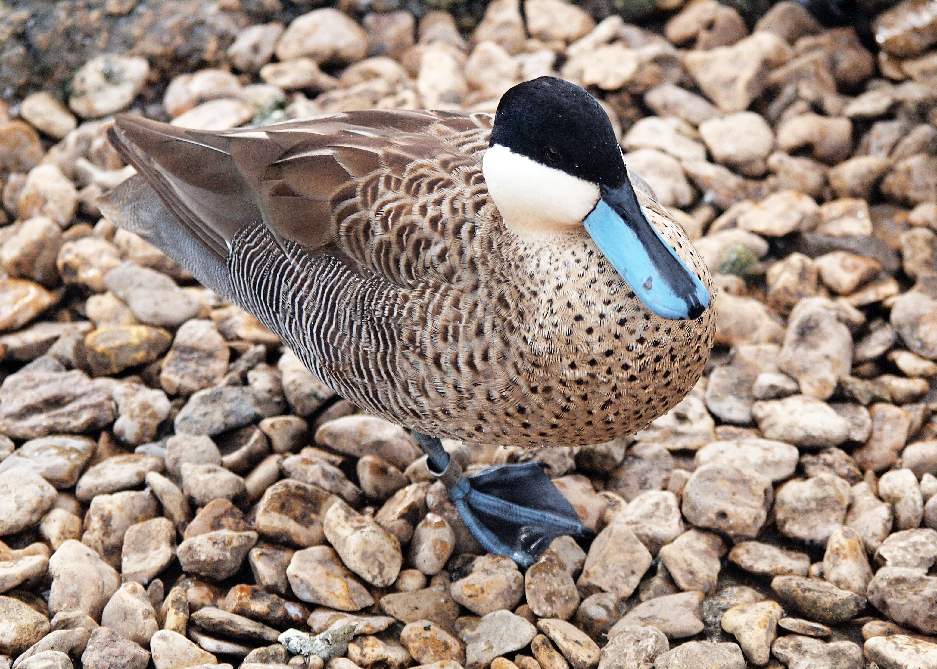 A Puna Teal in WWT Slimbridge, Gloucestershire, England.